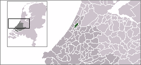 Location of Dutch former municipality Voorhout in 2005. Made by me (Mtcv), PD.